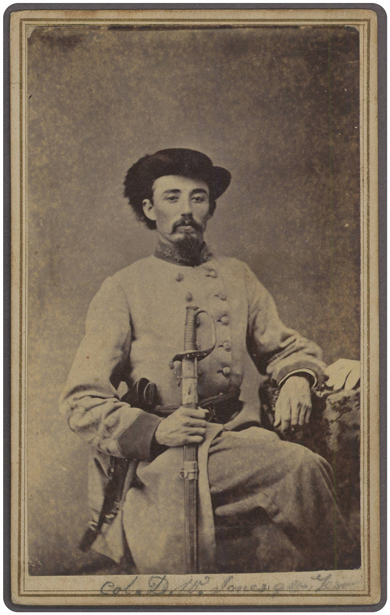 Col. Dudley W. Jones (1840–1869), 9th Texas Cavalry, DeGolyer Library, Southern Methodist University